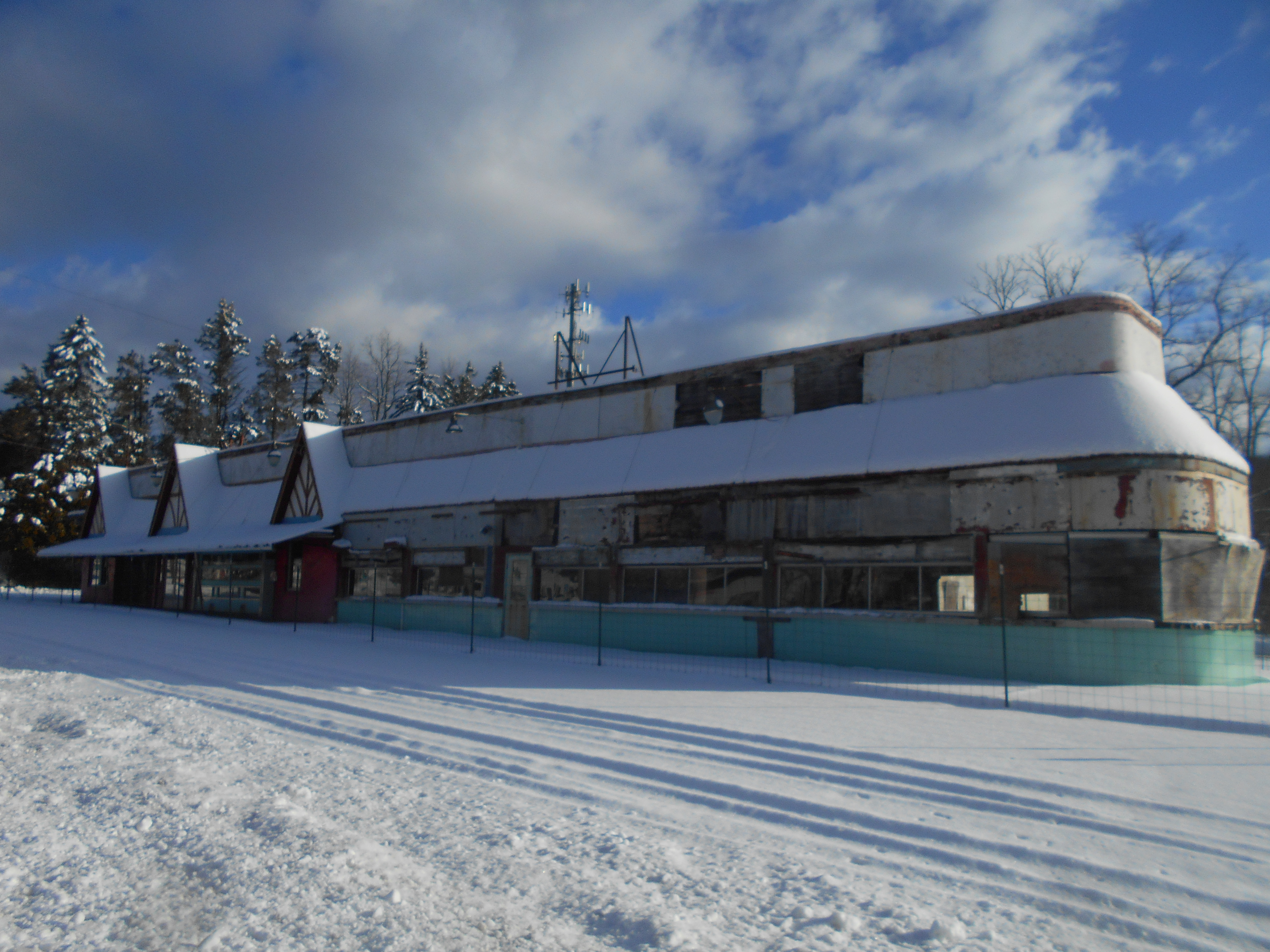 The former Red Apple Rest in Southfields, Tuxedo, New York